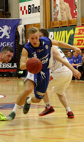 Matthías Orri Sigurðarson of ÍR driving to the basket in a Úrvalsdeild karla game between ÍR and Njarðvík in 2015.